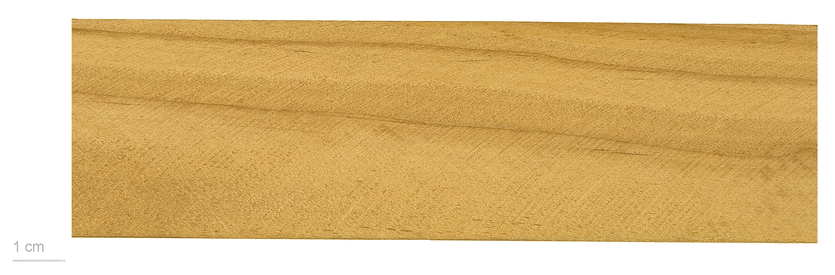 Douglas fir , wood